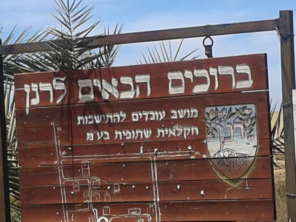 Sign at the entrance to the village Ranen, northern Negev, Israel